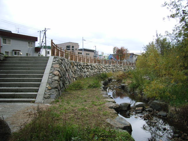 Yamahana River. Minami 34 Jō Nishi or Minami 25 Jō Nishi, Minami ward, Sapporo, Hokkaido prefecture, Japan. Southward.